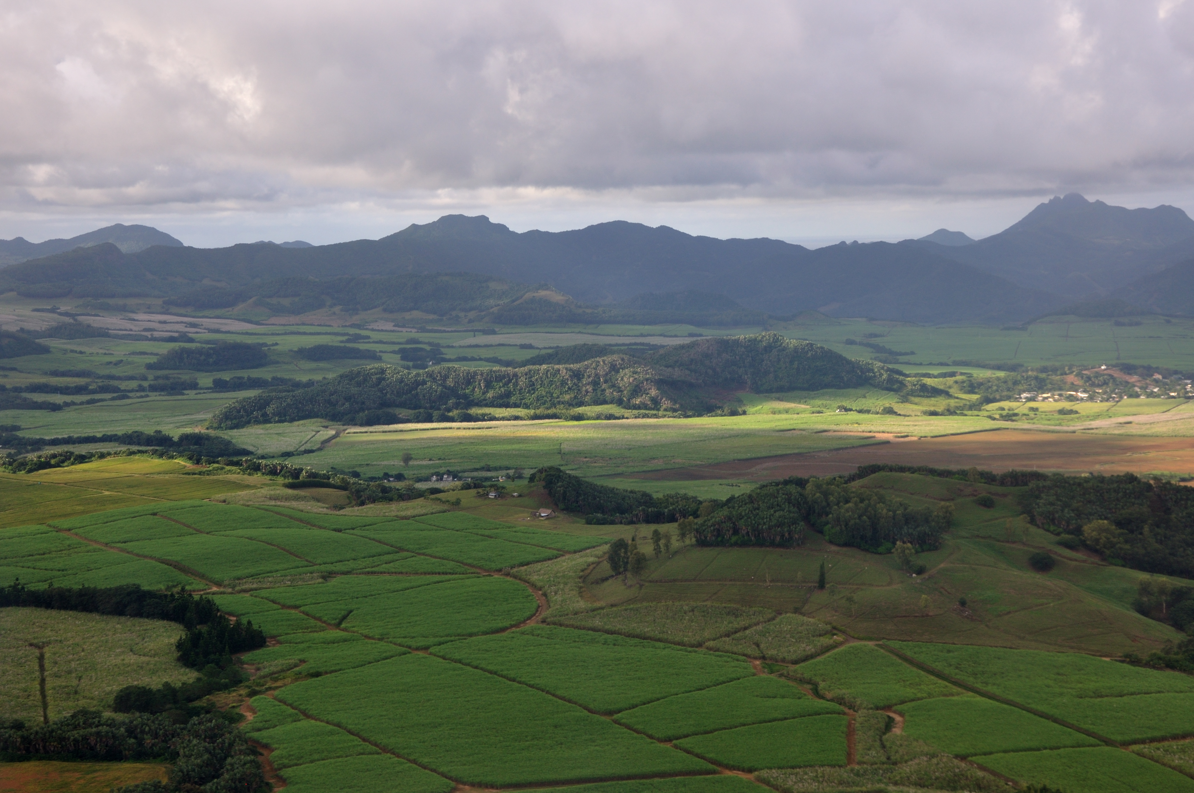 Mauritius, aerial impressions of Mauritius during an approach into Sir Seewoosagur Ramgoolam International Airport